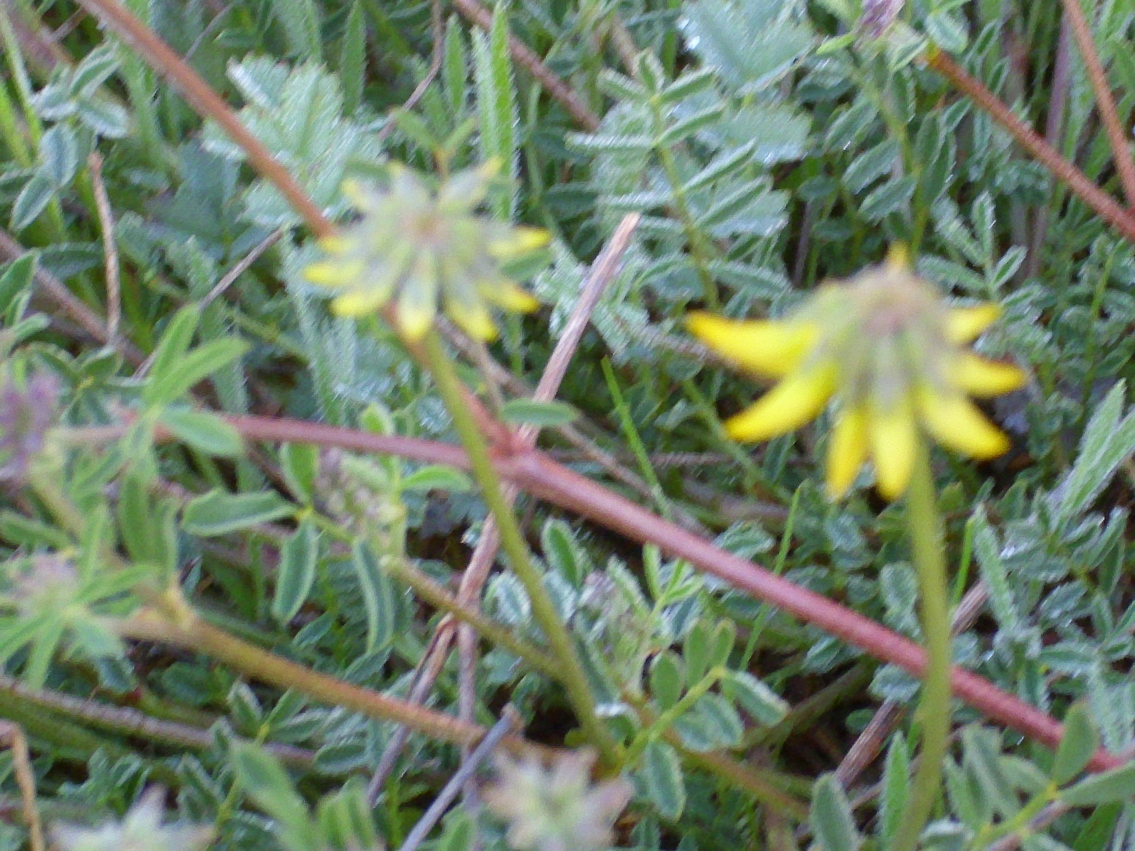 Coronilla minima leaves, Campo de Calatrava, Spain